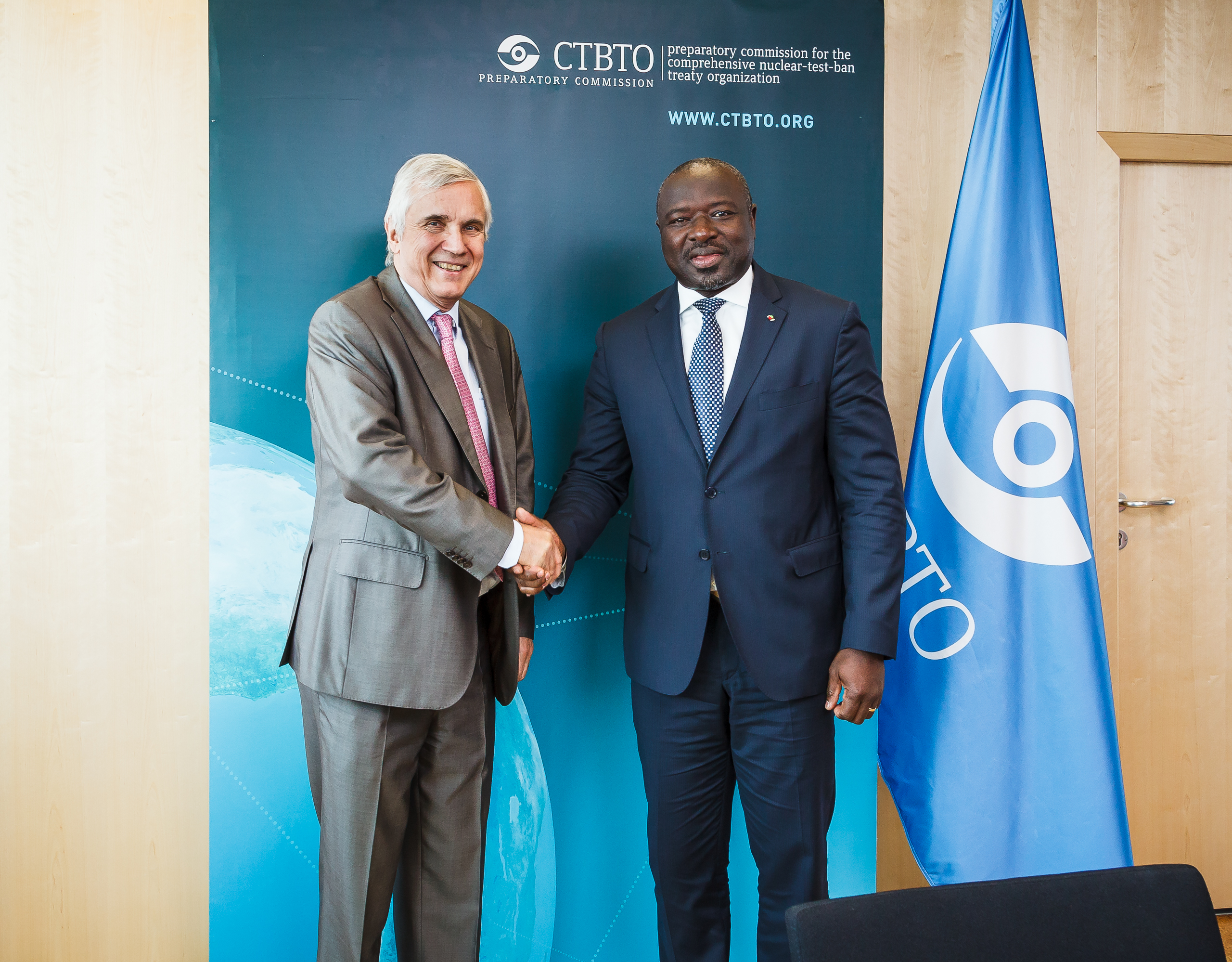 H.E. Friedrich Däuble, Permanent Representative of Germany, presents his credentials to Executive Secretary Lassina Zerbo, on 13 August 2015.